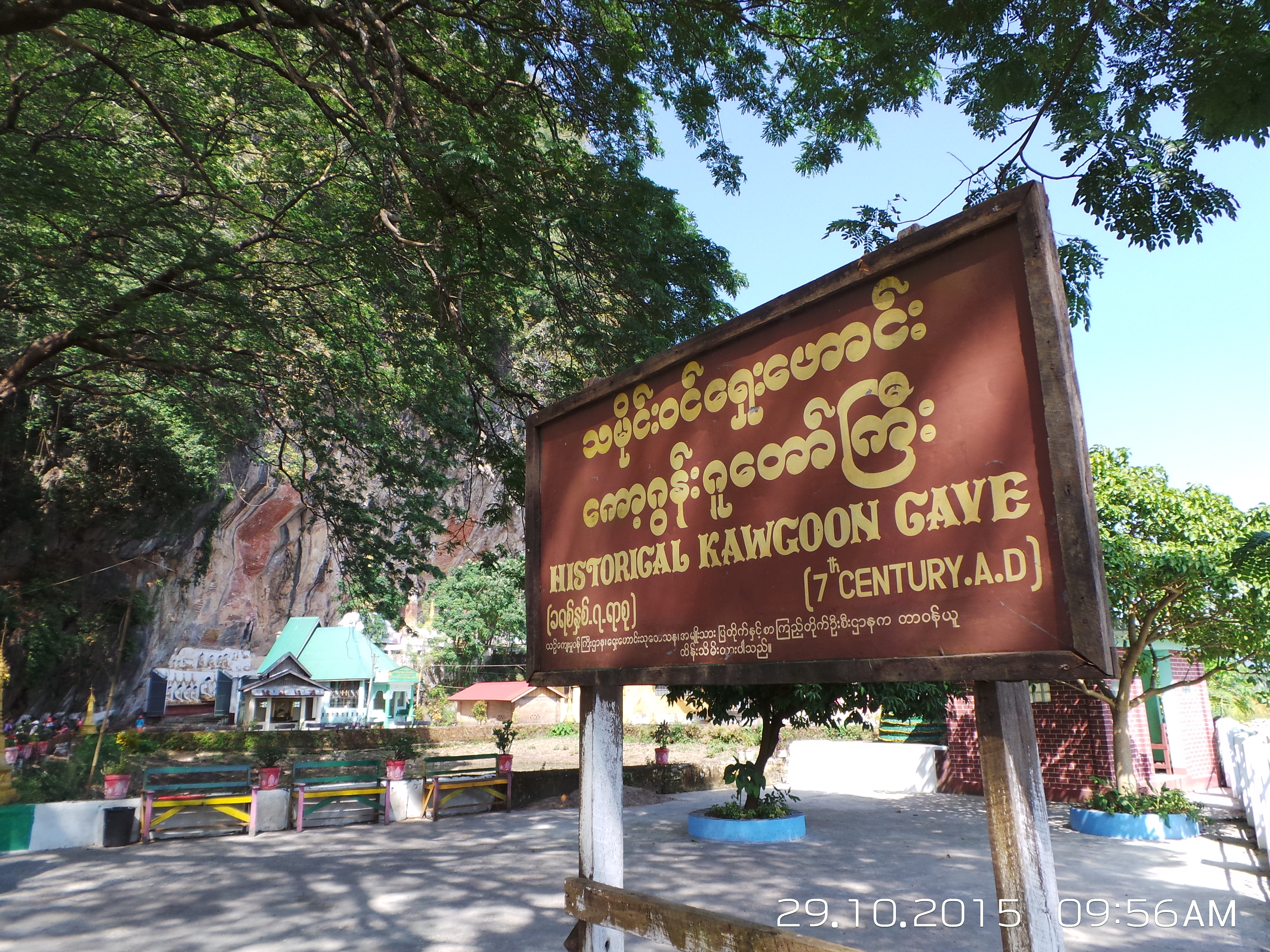 Historical Kawgun (Kawgoon) Cave Entrance Signboard, Kawgun Cave is a natural limestone cave in Hpa-An, Karen State, Myanmar. မြန်မာဘာသာ: သမိုင်းဝင်ရှေးဟောင်း ကော့ဂွန်းဂူ အဝင်ဆိုင်းဘုတ်ဖြစ်သည်။ ကော့ဂွန်းဂူသည် သဘာဝထုံးကျောက်လိုဏ်ဂူများအတွင်း၌ ဗုဒ္ဓဘာသာဆိုင်ရာကိုးကွယ်မှု အမွေအနှစ်များနှင့် ယဉ်ကျေးမှုအမွေအနှစ်များ ကျန်ရှိနေမှုအများဆုံးနေရာတစ်ခုဖြစ်ပြီး ကရင်ပြည်နယ် ဖားအံမြို့အနီးတွင်တည်ရှိသည်။